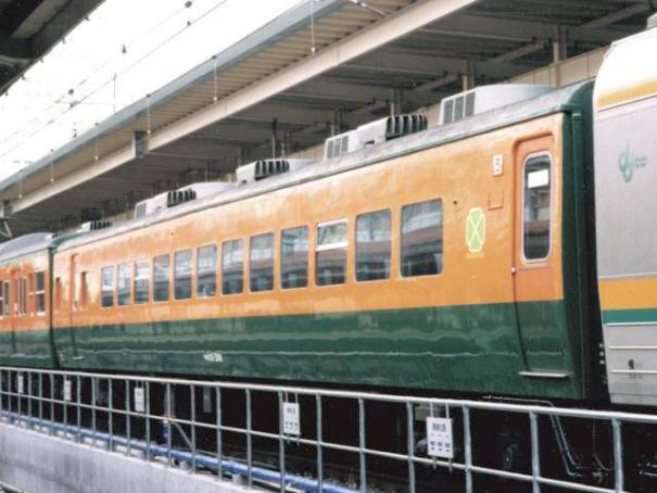 East Japan Railway Company, EMU Type Saro110-309(First Class "Green Car") サロ183からの改造車 東京駅にて撮影 At Tokyo Sta. 1996.10.12 Photo by Cassiopeia_sweet.